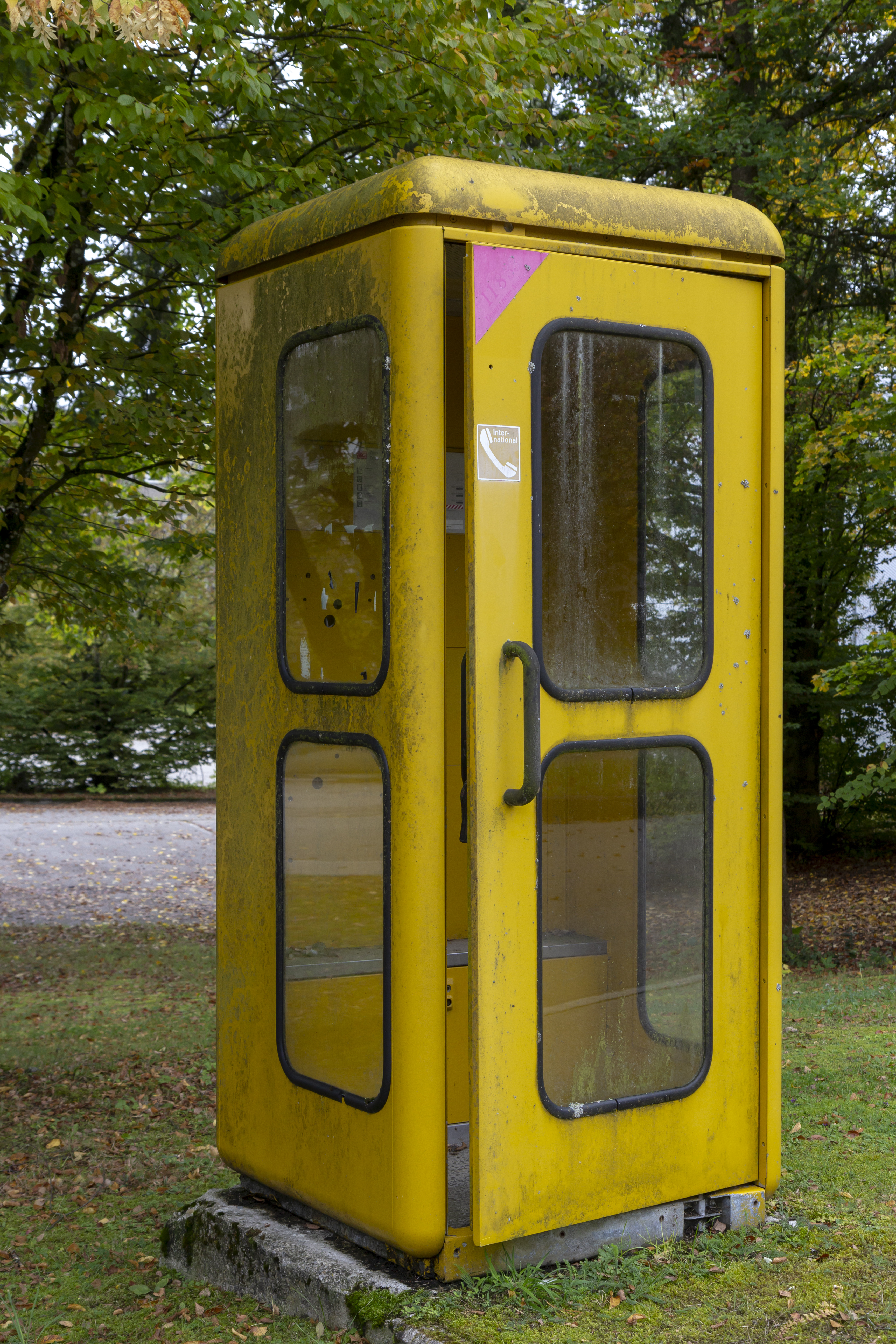 The Technical Enlightenment Center in Pullach of the Federal Intelligence Service